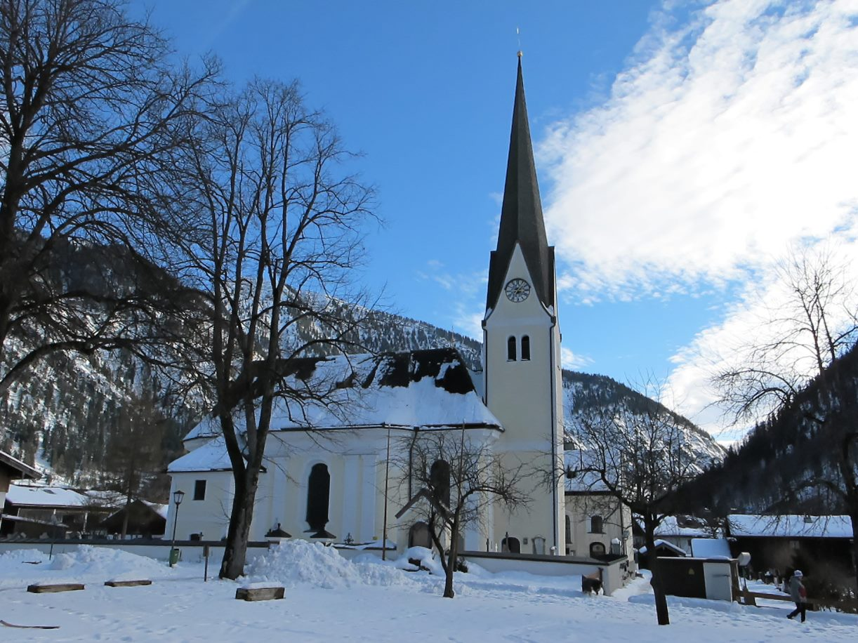 kath. church St. Margareth